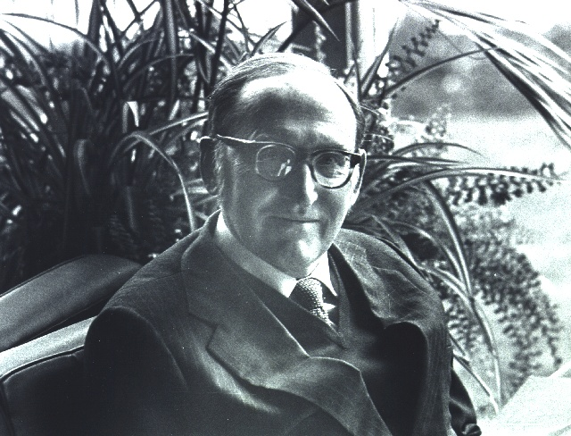 M.V. Wilkes, March 1974 Sigma Users Group, Gatwick